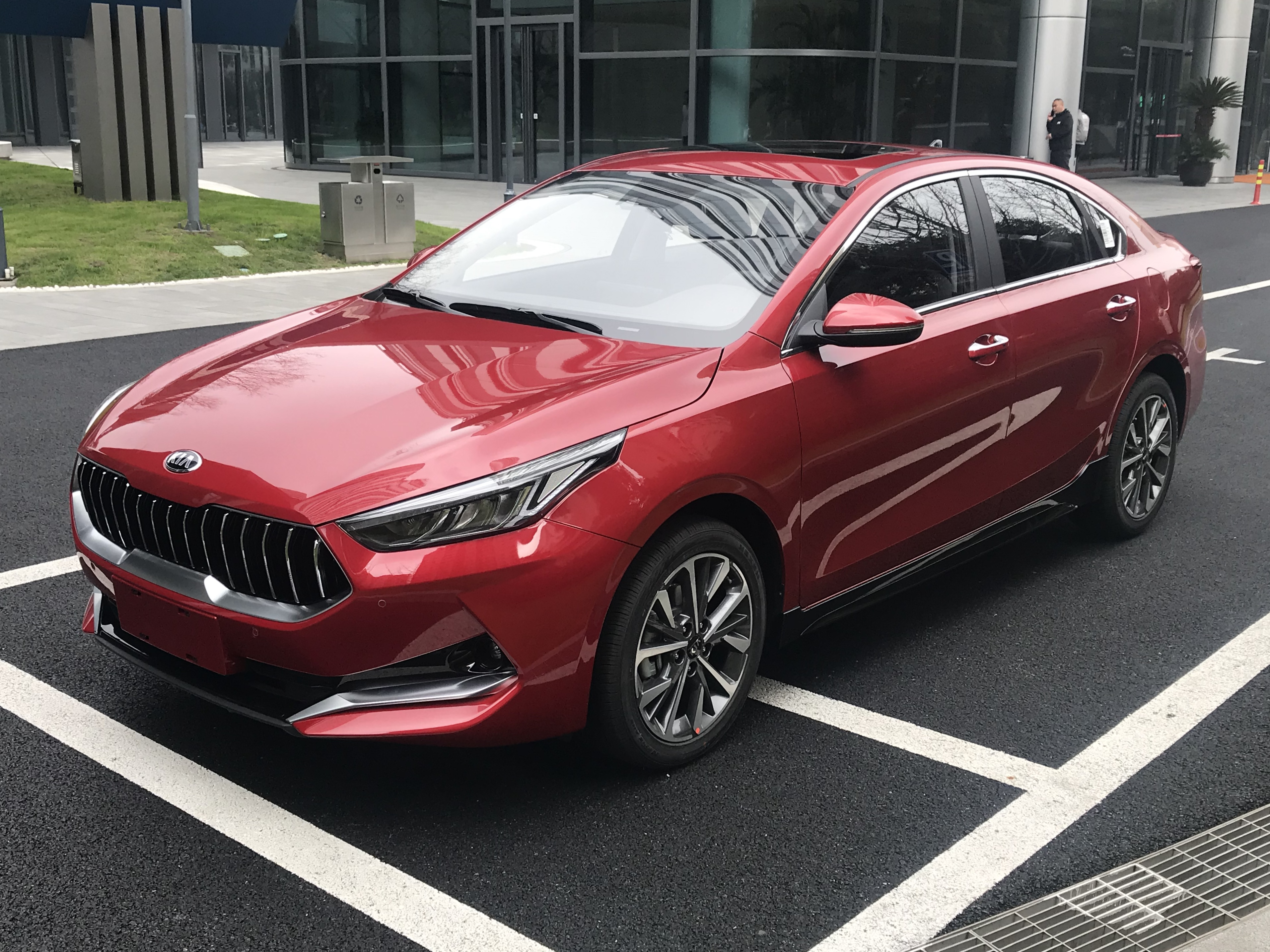 Kia K3 (BD) Chinese version